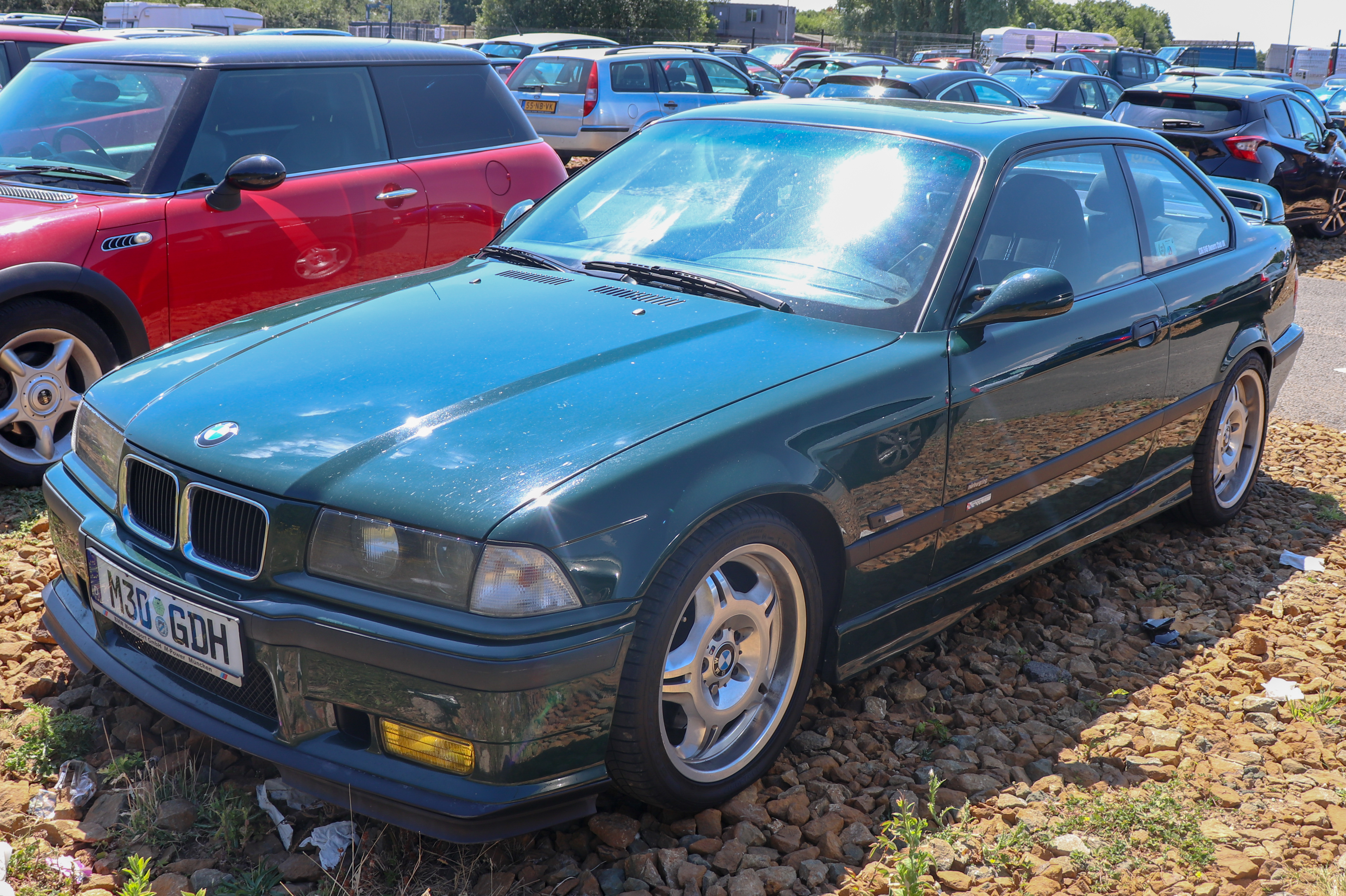 1995 BMW M3 GT Individual 3.0 Front Taken at the British Motor Museum Old Ford Rally 2018, Gaydon